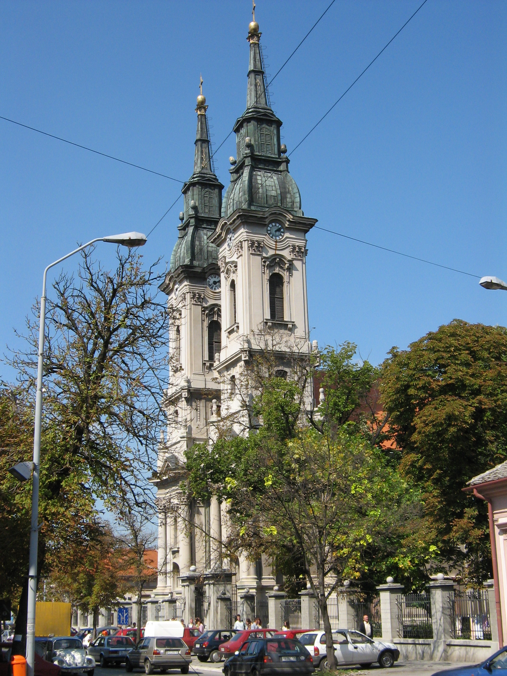 Church of Assumption in Pančevo/Uspenska crkva u Pančevu